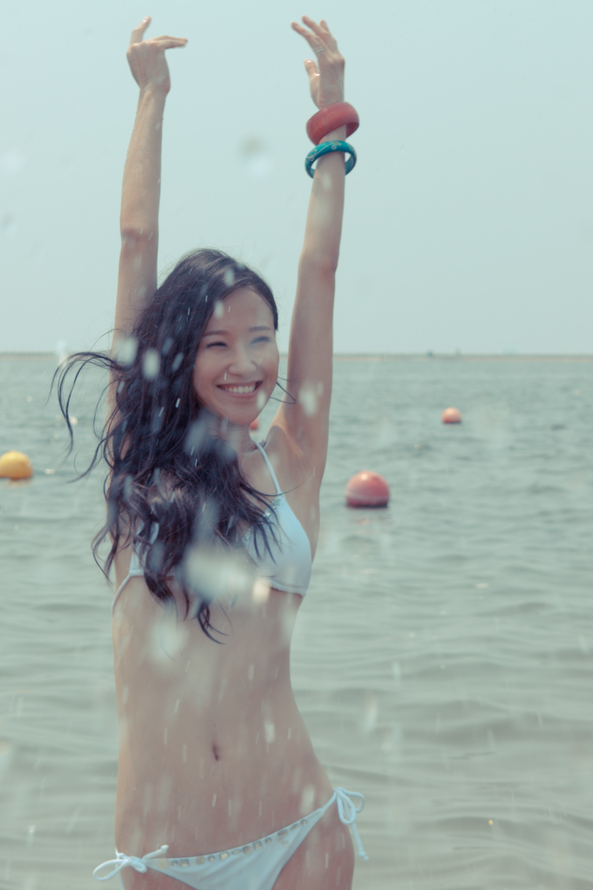 One of my commercial shoots: Photos featuring Chinese models as wallpapers. Those were downloadable on a Philips microsite. It was for the launch of a new "3D Shaver". The idea was to show four different women: A model, an artist, a office worker and an CEO.